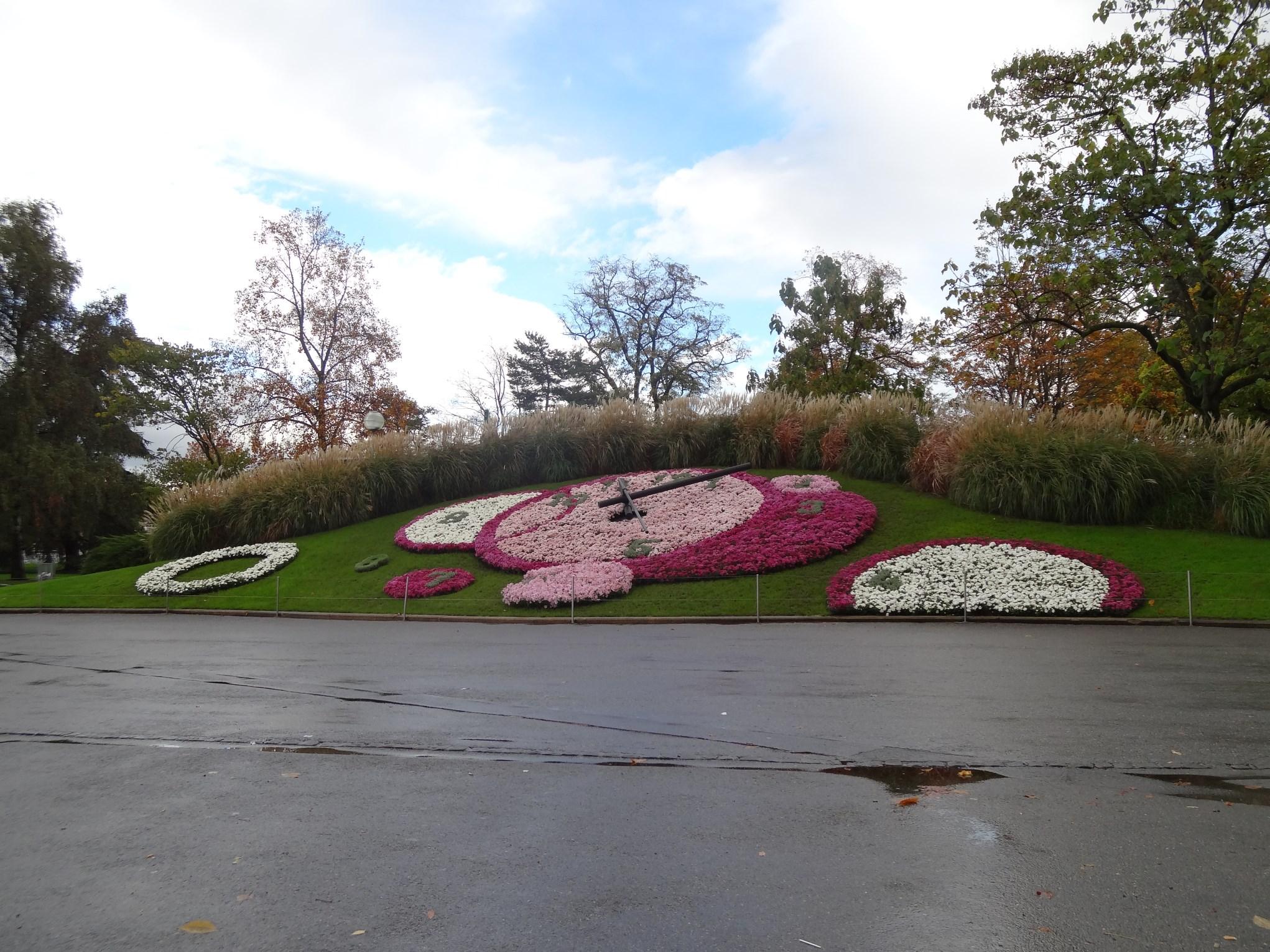 Geneva